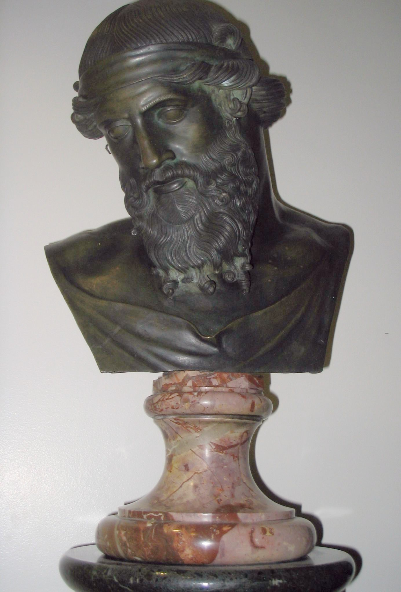 A bust of Aristotle